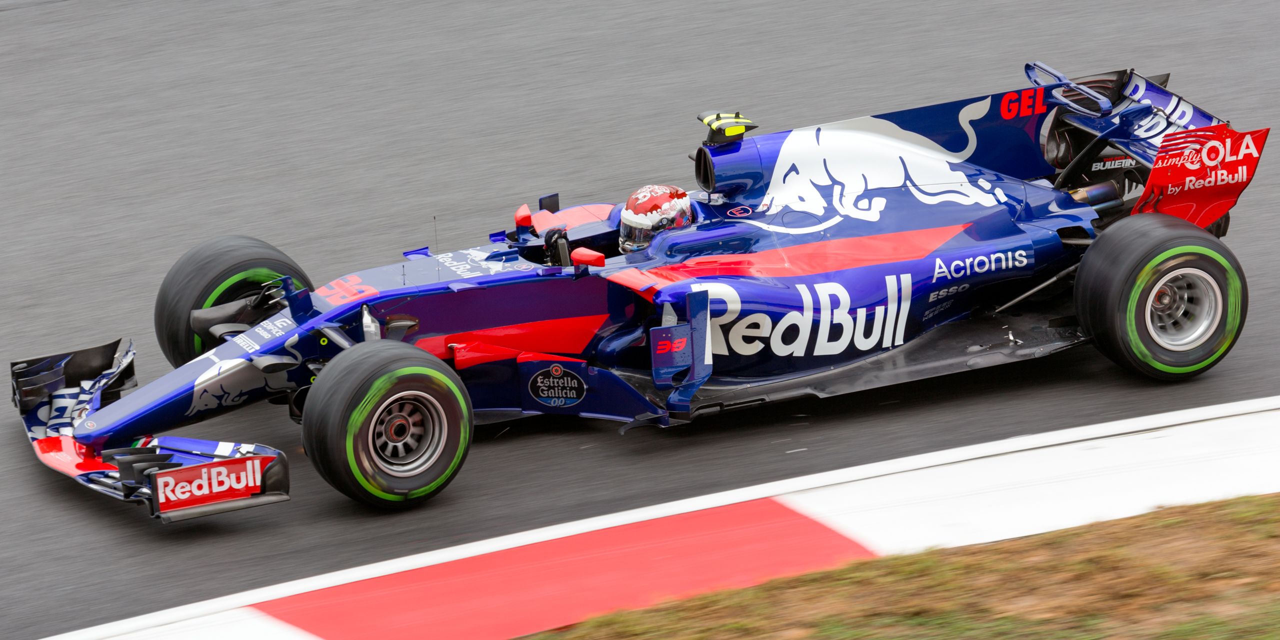 Formula One 2017 Rd.15 Malaysian GP: Sean Gelael (Toro Rosso)